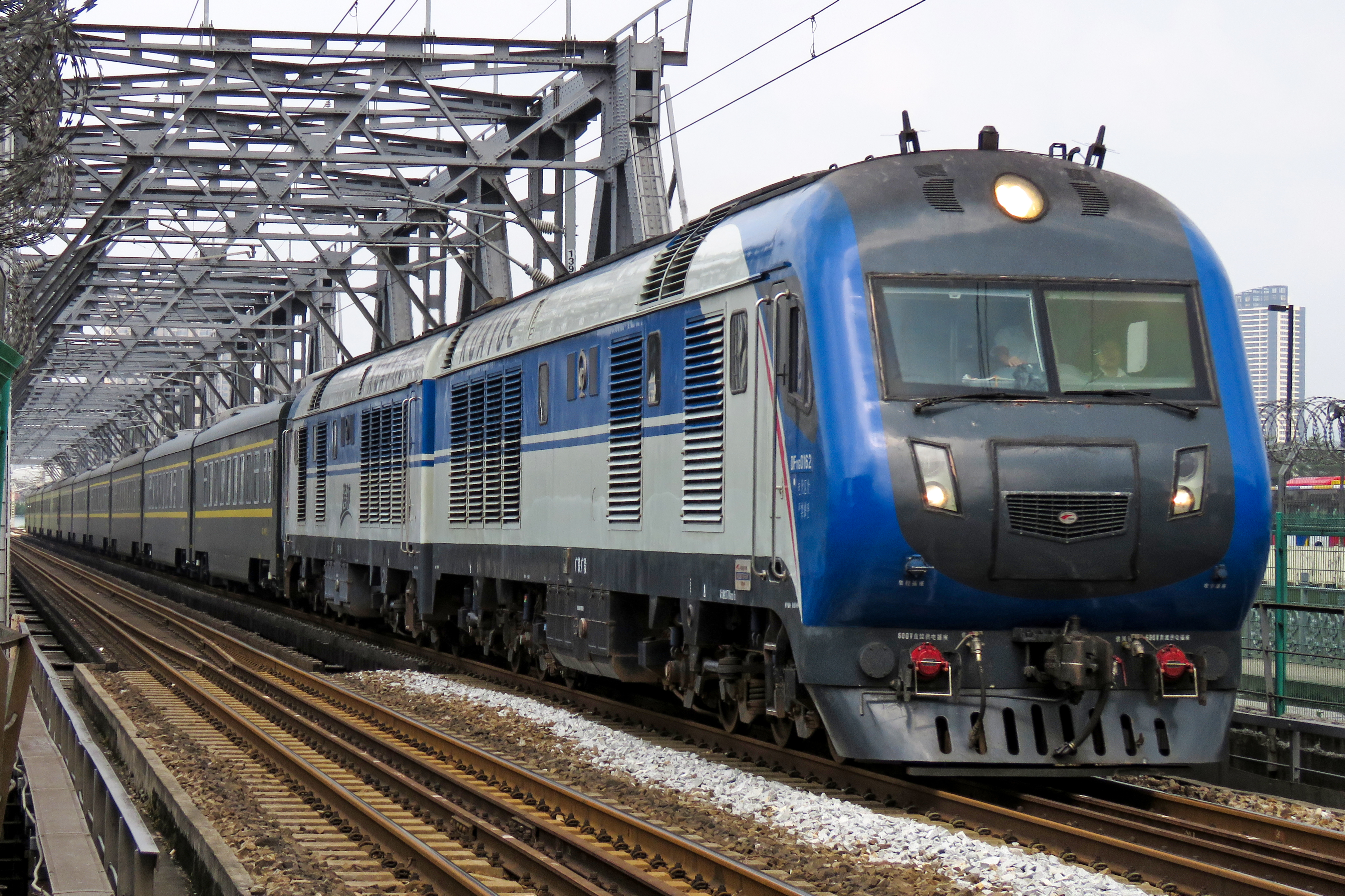 Z805 from Hung Hom to Foshan. Nearly forgot this Intercity Through Train... it should be noted that the numbers of these two DF11Gs are not contiguous (the latter is DF11G-0200), which is a "special feature" of CR Guangzhou.